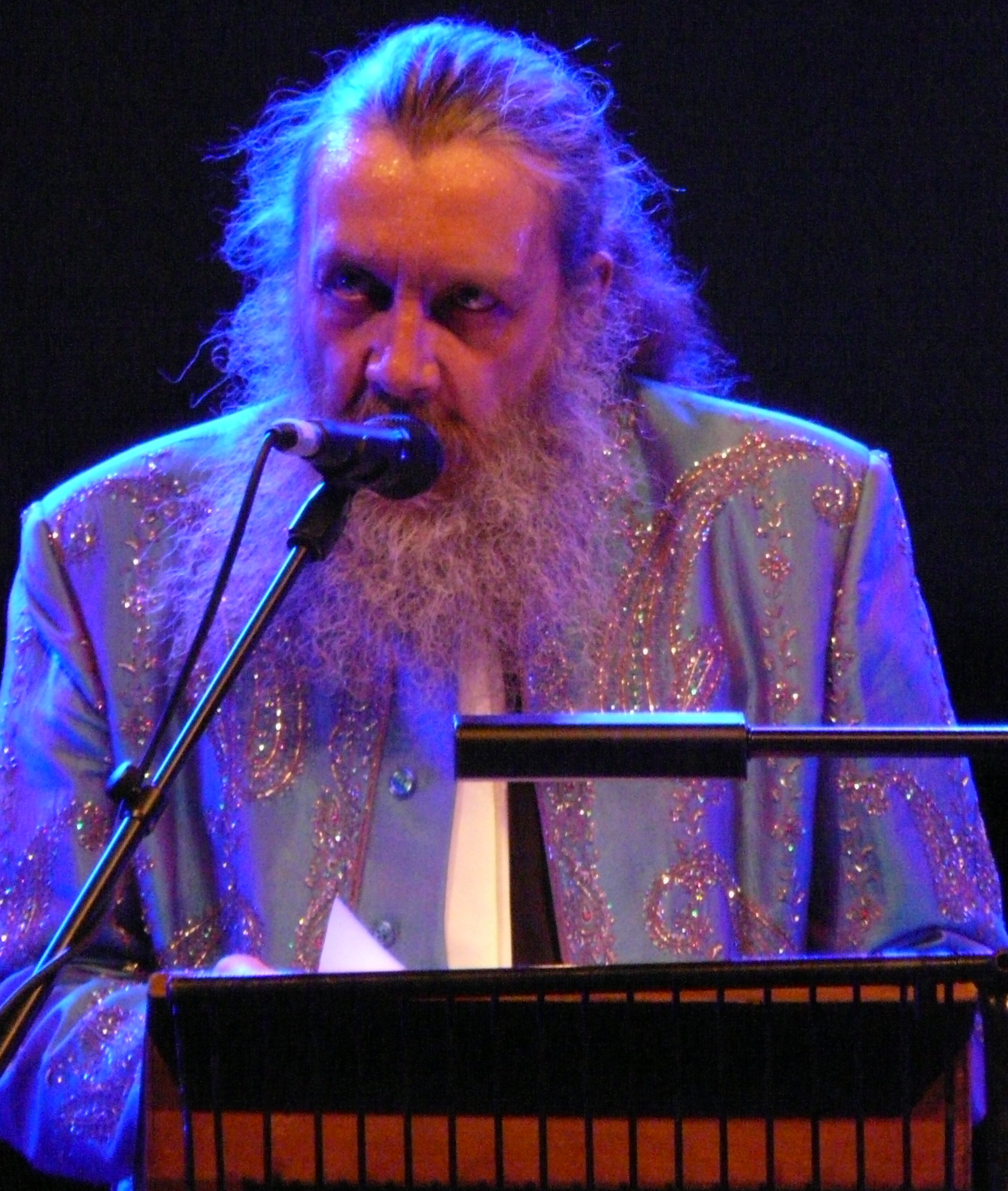 Alan Moore, I'll Be Your Mirror 2011, Alexandra Palace (Muswell Hill, London, England).